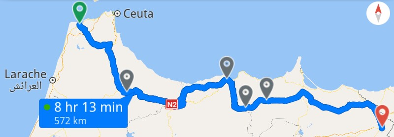 Moroccan National route 2 map, the road connects Tangiers (west) to Oujda (east).